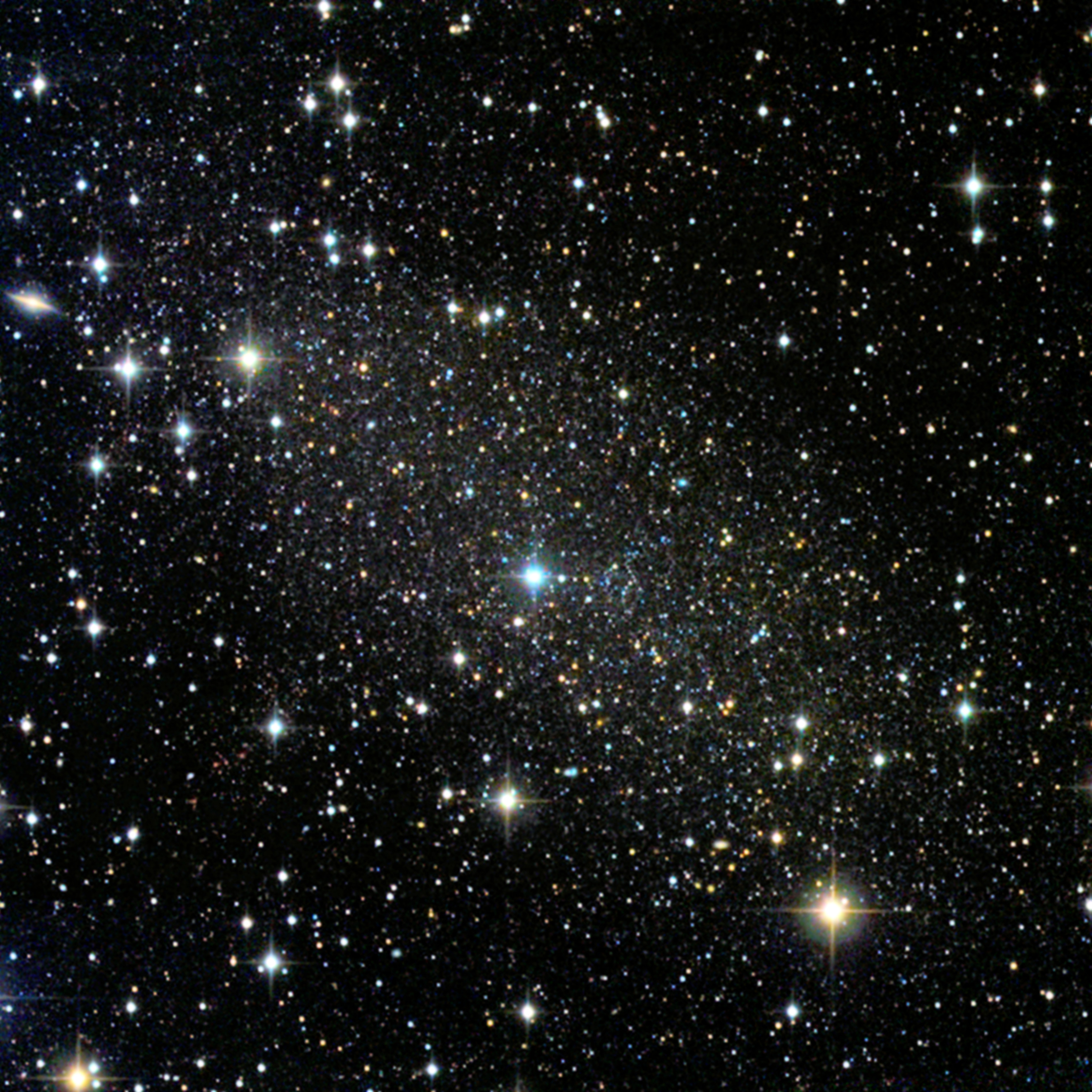 Ursa Minor Dwarf Composite Public data/Giuseppe Donatiello J2000.0 RA 15h 09m 08.5s DEC +67° 13′ 21″ The Ursa Minor Dwarf is a dwarf spheroidal galaxy, discovered by A.G. Wilson of the Lowell Observatory, during the Palomar Sky Survey in 1955 in the Ursa Minor, and is a satellite galaxy of the Milky Way distant 225,000 light-years. The galaxy consists mainly of old stars and seems to house little to no ongoing star formation.